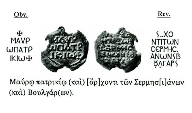 Lead seal of Mauros, patrikios and archon of the Sermesianoi and of the Boulgaroi